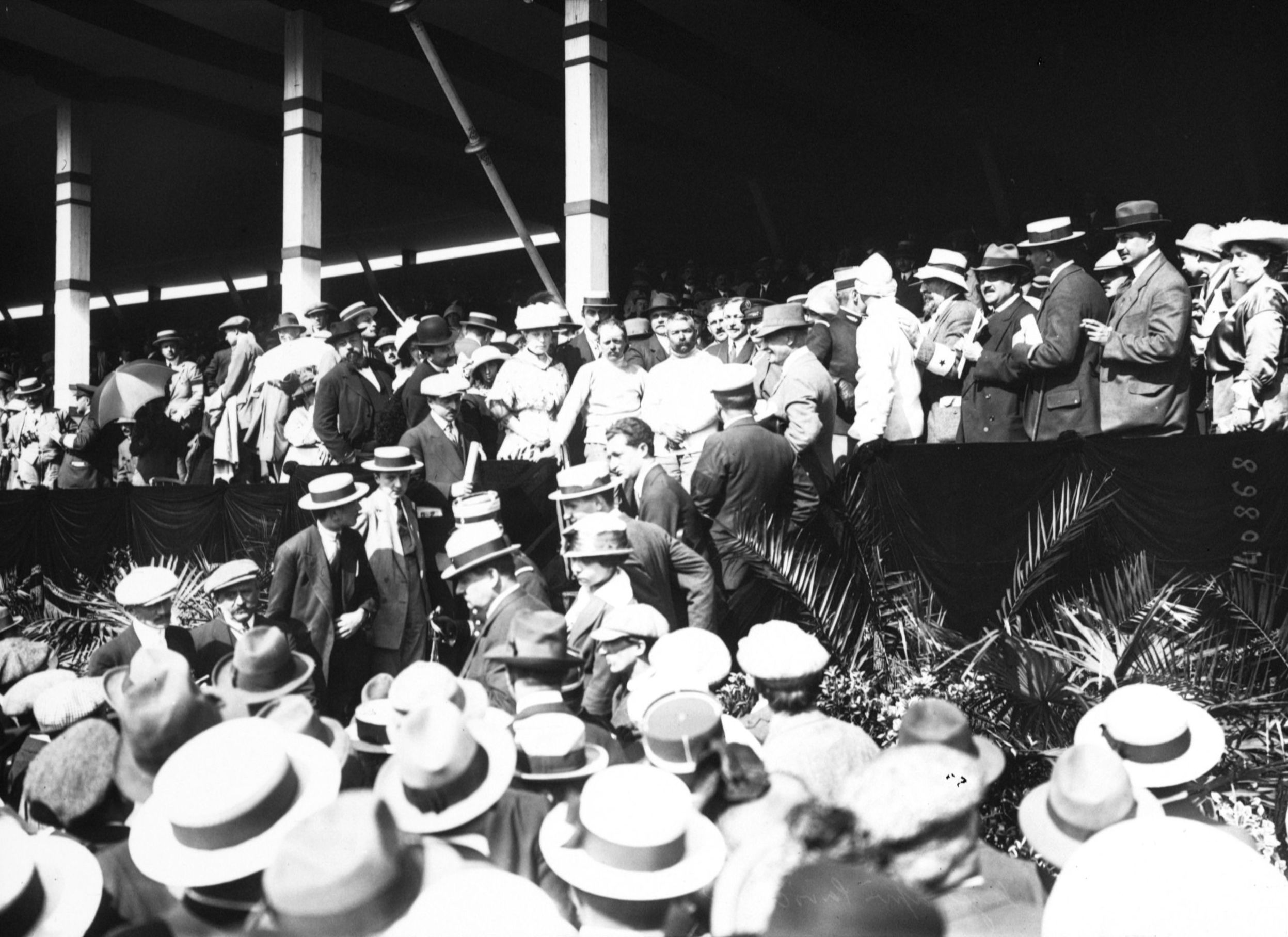 Christian Lautenschlager at the 1914 French Grand Prix